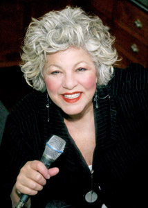 Photograph of American Jazz singer Judy Chamberlain in 2008.